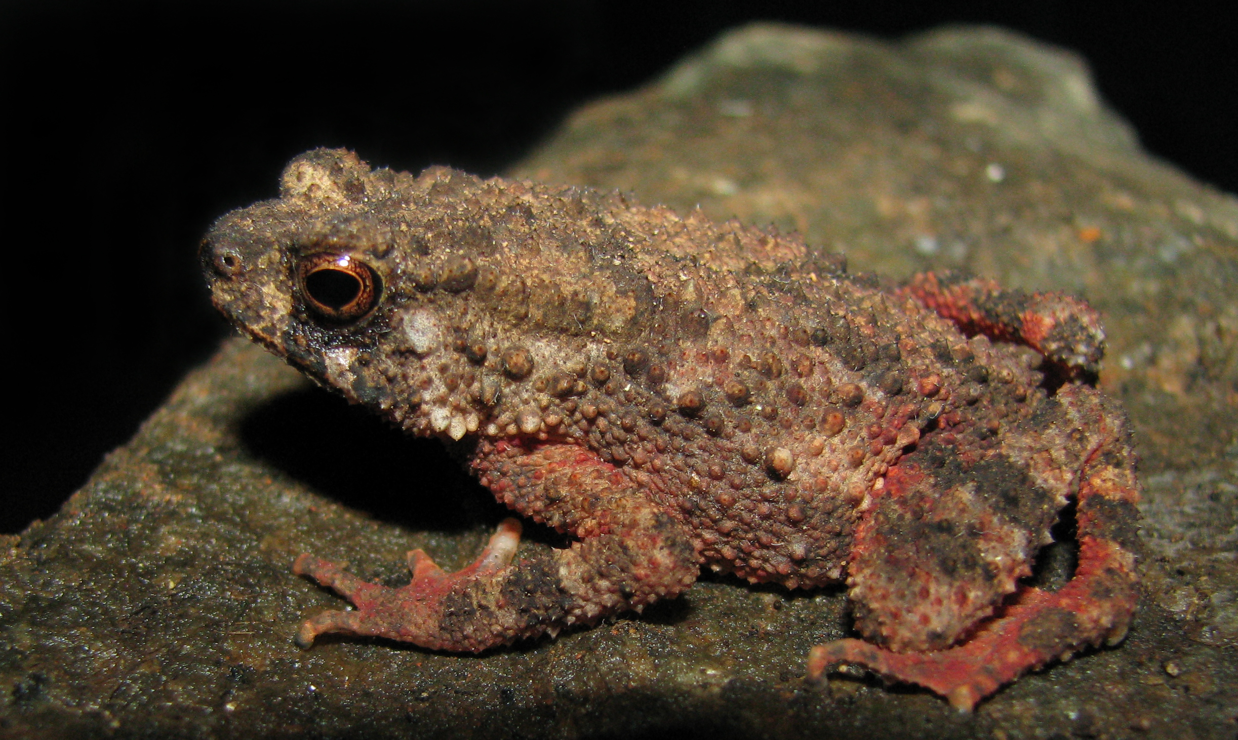 Shot from Upper Kodayar